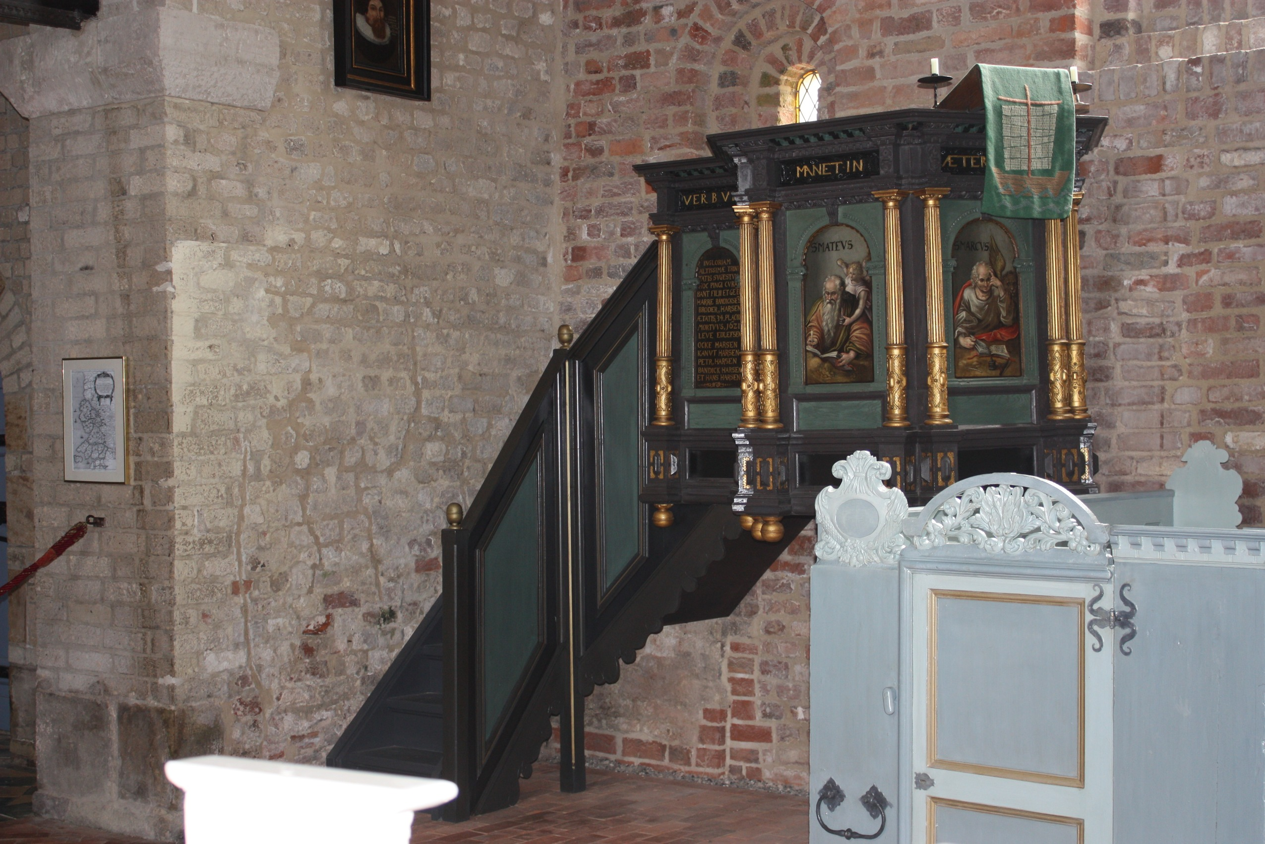 Pellworm, Kirche St.Salvator - Die Kanzel This is a photograph of an architectural monument. .1